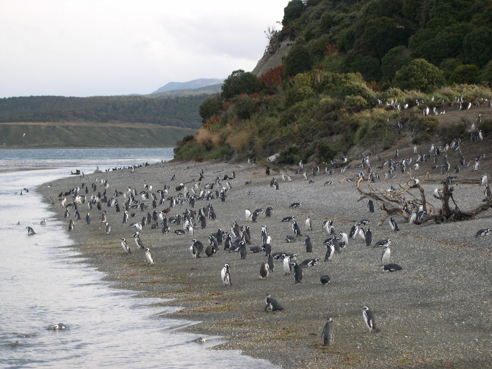 penguins beach Argentina